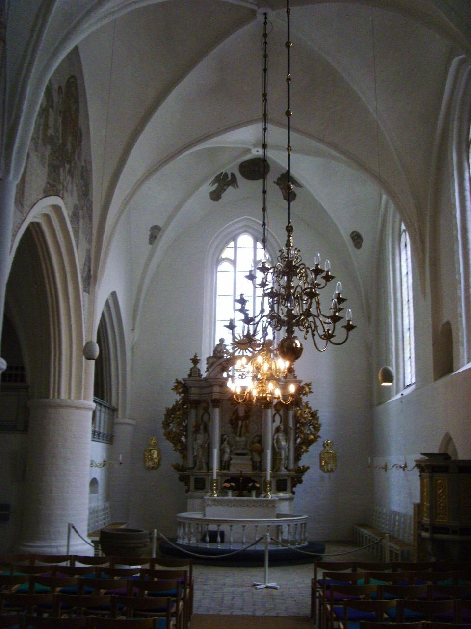 The Danish minority church - Helligåndskirken (Heiliggeistkirche) - from 1386 in Flensburg, a former chapel of the Hospital zum Heiligen Geist.